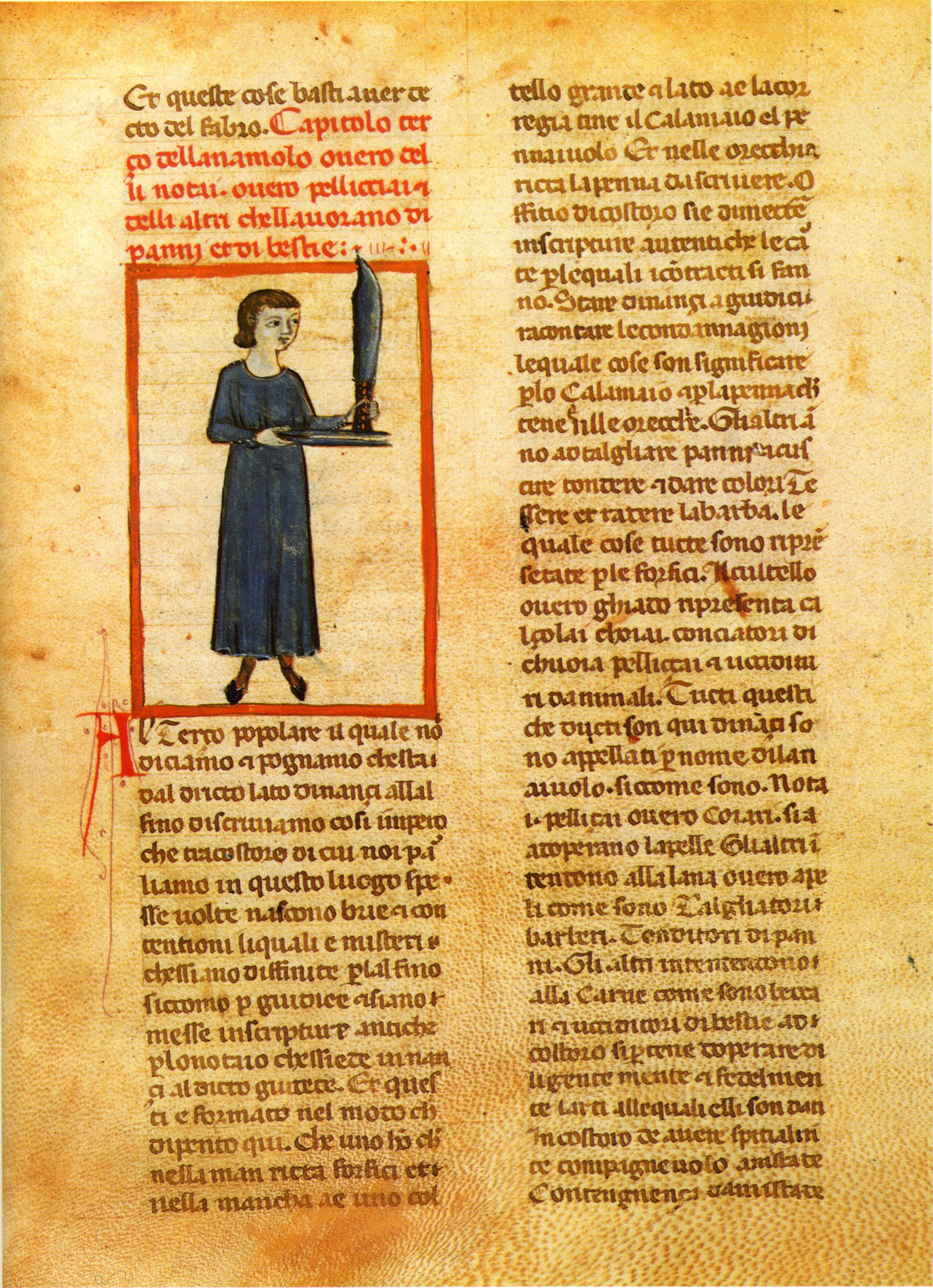 Jacobus de Cessolis, Liber de moribus hominum et officiis nobilium super ludo scacchorum (Italian version) in ms. Modena, Biblioteca Estense, It. 197, fol. 32v.